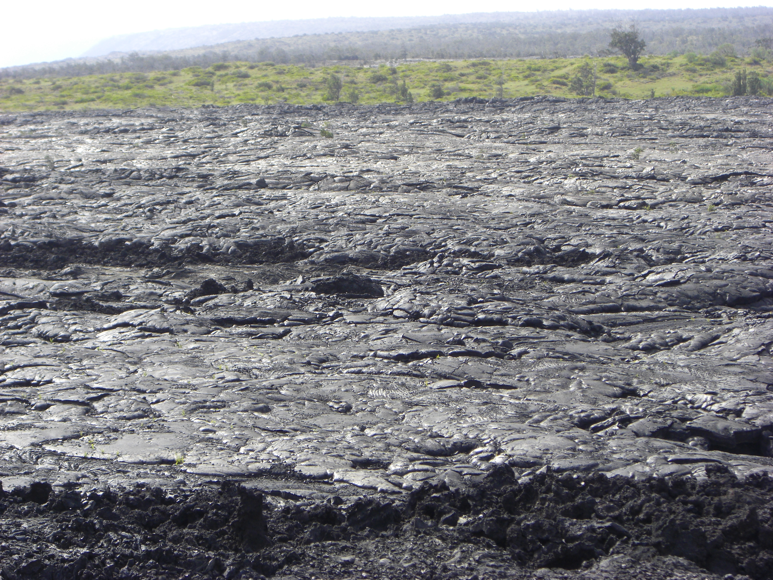 Chain of Craters Road, Kilauea, Hawaii, USA